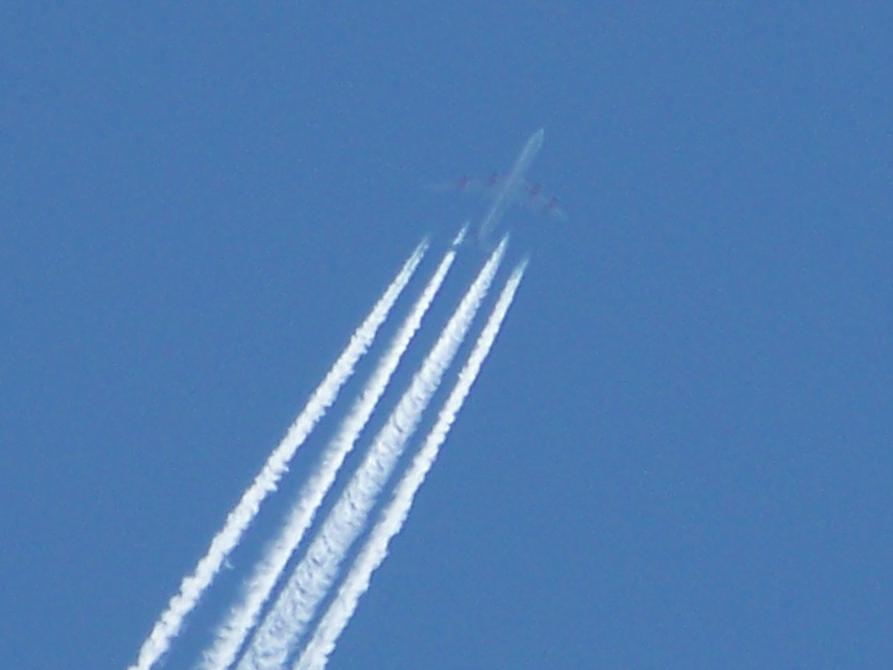 A view of an aircraft from Vlastec hill (Skryje, Rakovník District, Central Bohemian Region), the Czech Republic.